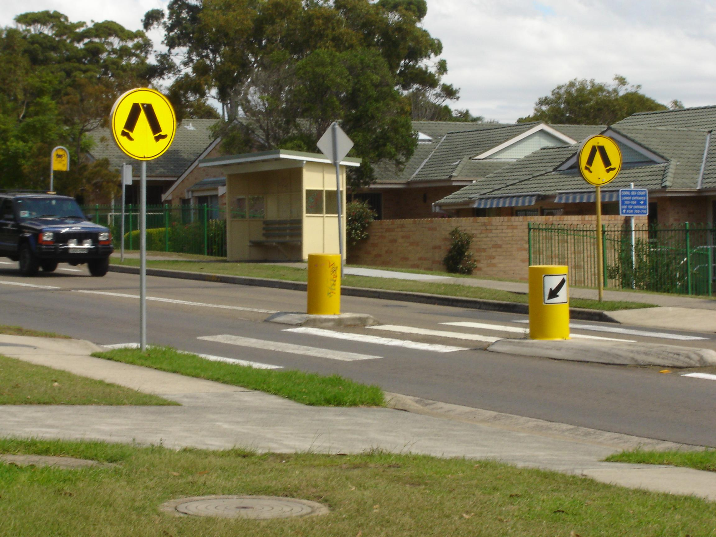 A "zebra" style pedestrian crossing in Sydney, Australia, photographed by DO'Neil.